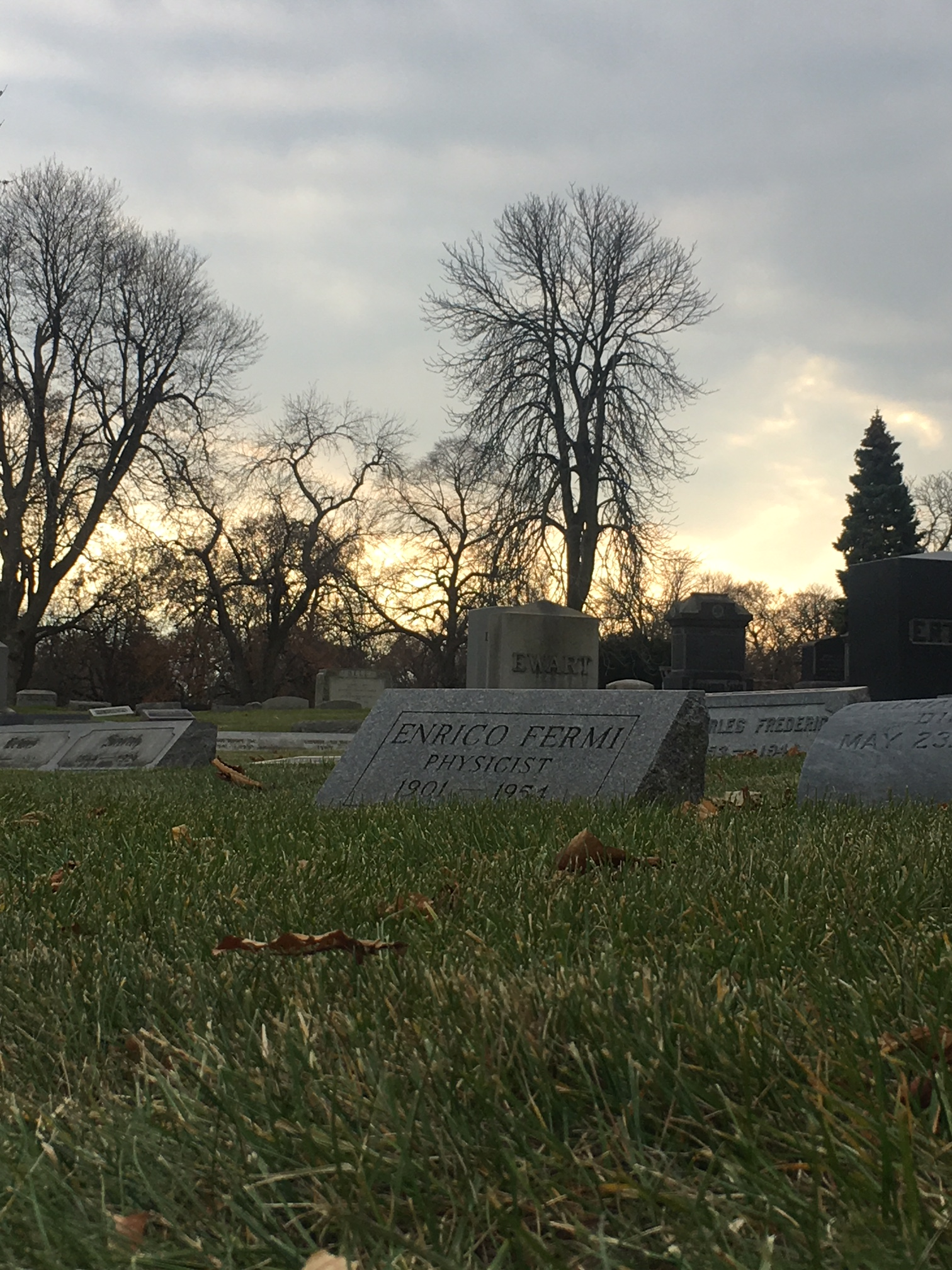 Resting place of Enrico Fermi, located in Chicago, Illinois, USA